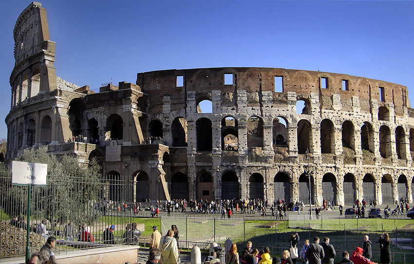 Colosseum, Rome.